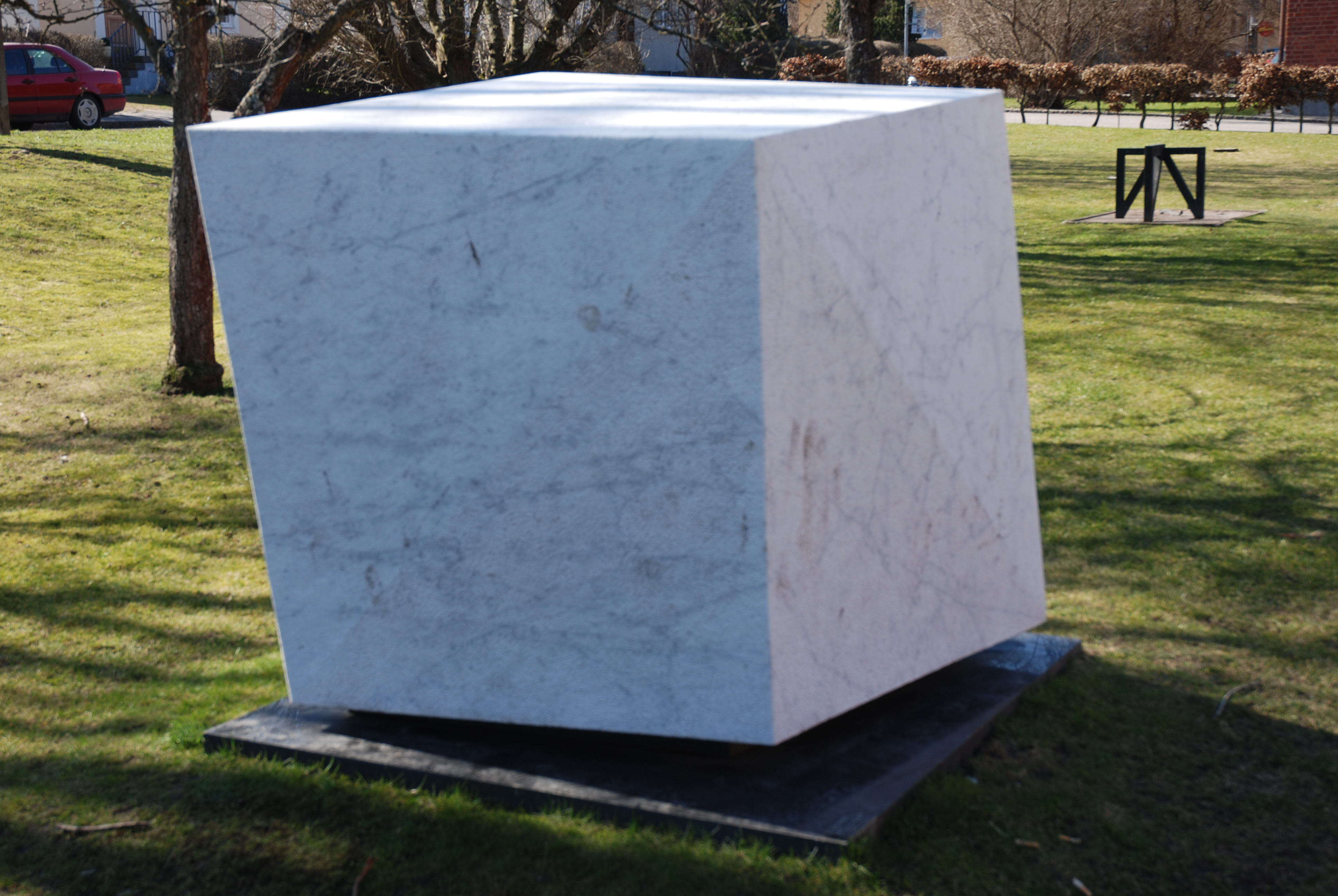 Gert Marcus´ Cubo Centrifugo-Centripeto, Norrköping, Sweden